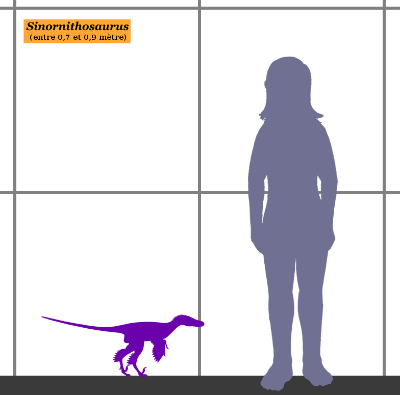 Size comparison between the dromaeosaurid Sinornithosaurus and a human.